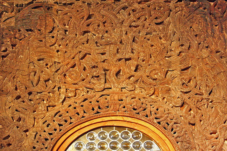 Church Wang in Karpacz (Poland).